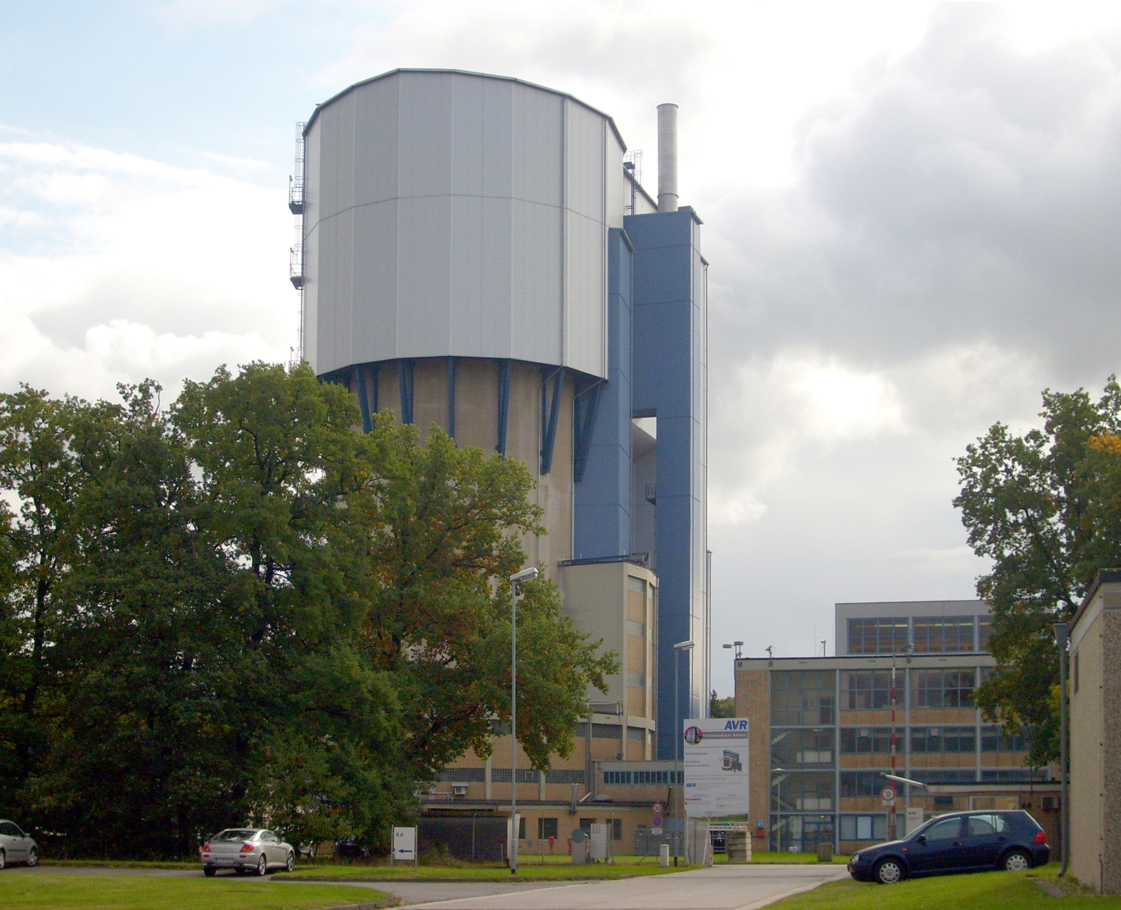 AVR Pebble bed reactor at Forschungszentrum Jülich